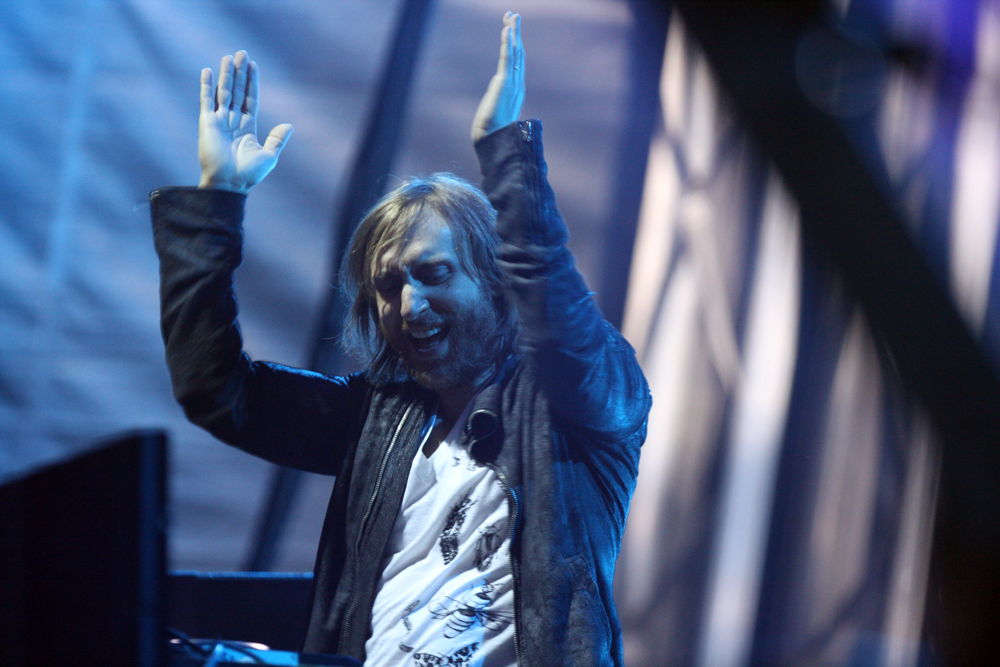 David Guetta Performs Live at Creamfields, Sydney, Australia 2012.